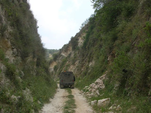 the train in Samaria